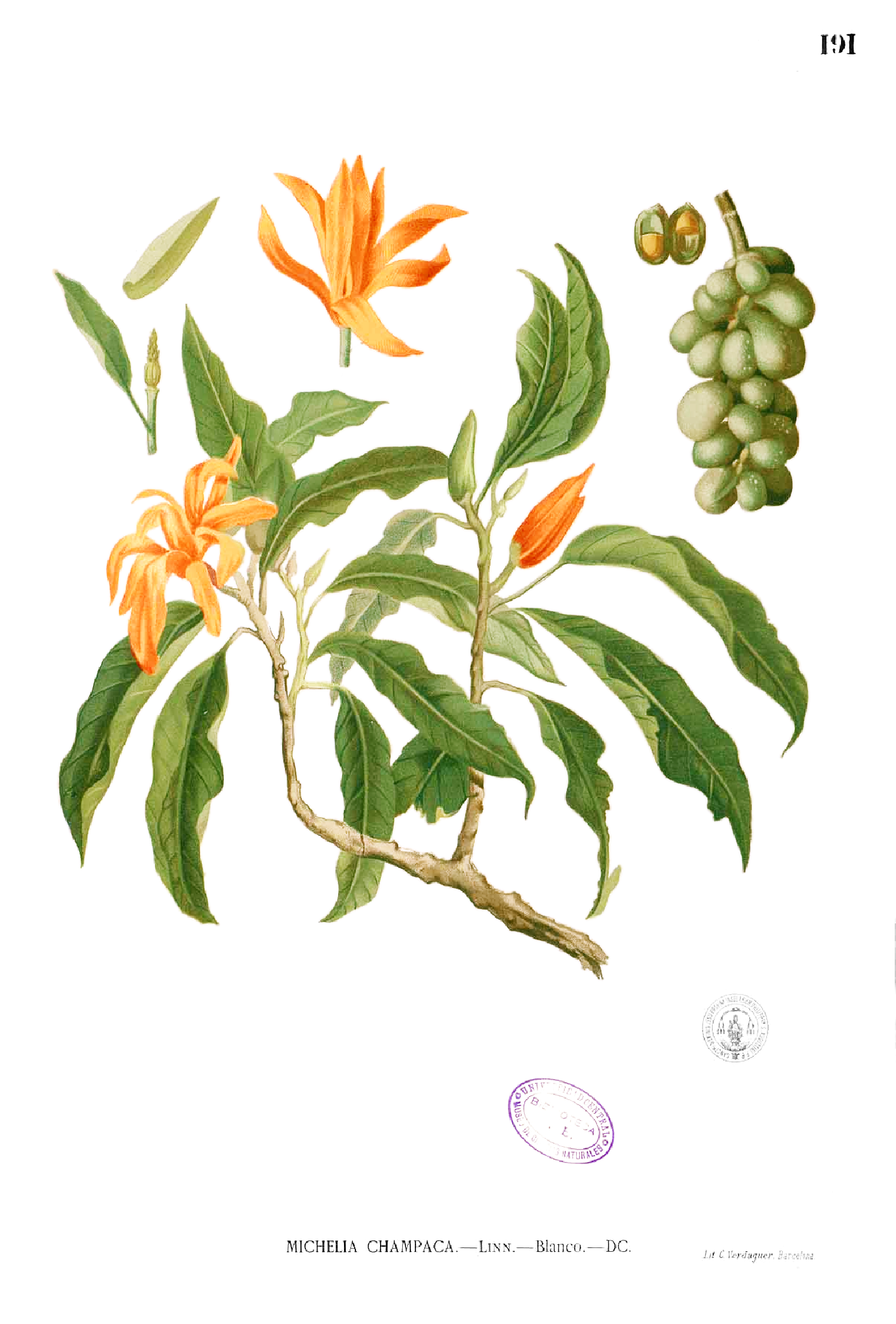 Plate of flowers and fruit of Magnolia (Michelia) champaca from Flora de Filipinas Atlas I